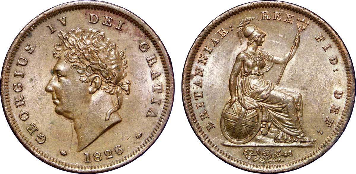 1 Penny à l'effigie de Georges IV, 1826